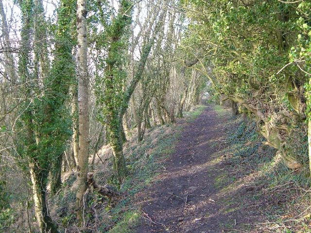 Adcombe Wood A bridlepath on the brink of the Blackdown Hills, with the gentle slopes of Adcombe Hill behind the trees on the right, while on the left Adcombe Wood plunges down the scarp into a side valley. See Prior's Park & Adcombe Wood View looking roughly north-west, probably from ST 224 178